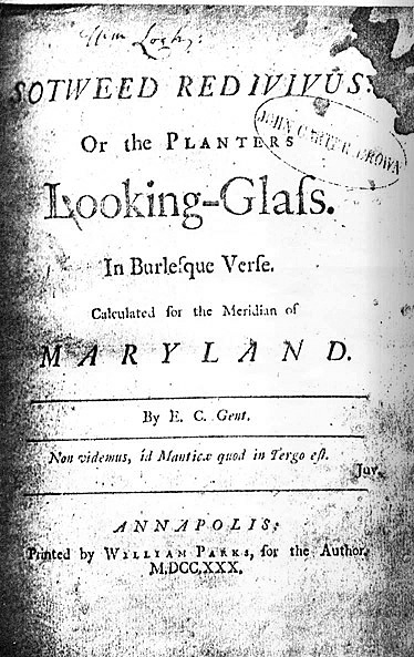 Booktitle from Ebenezer Cooke's Sotweed Redivivus